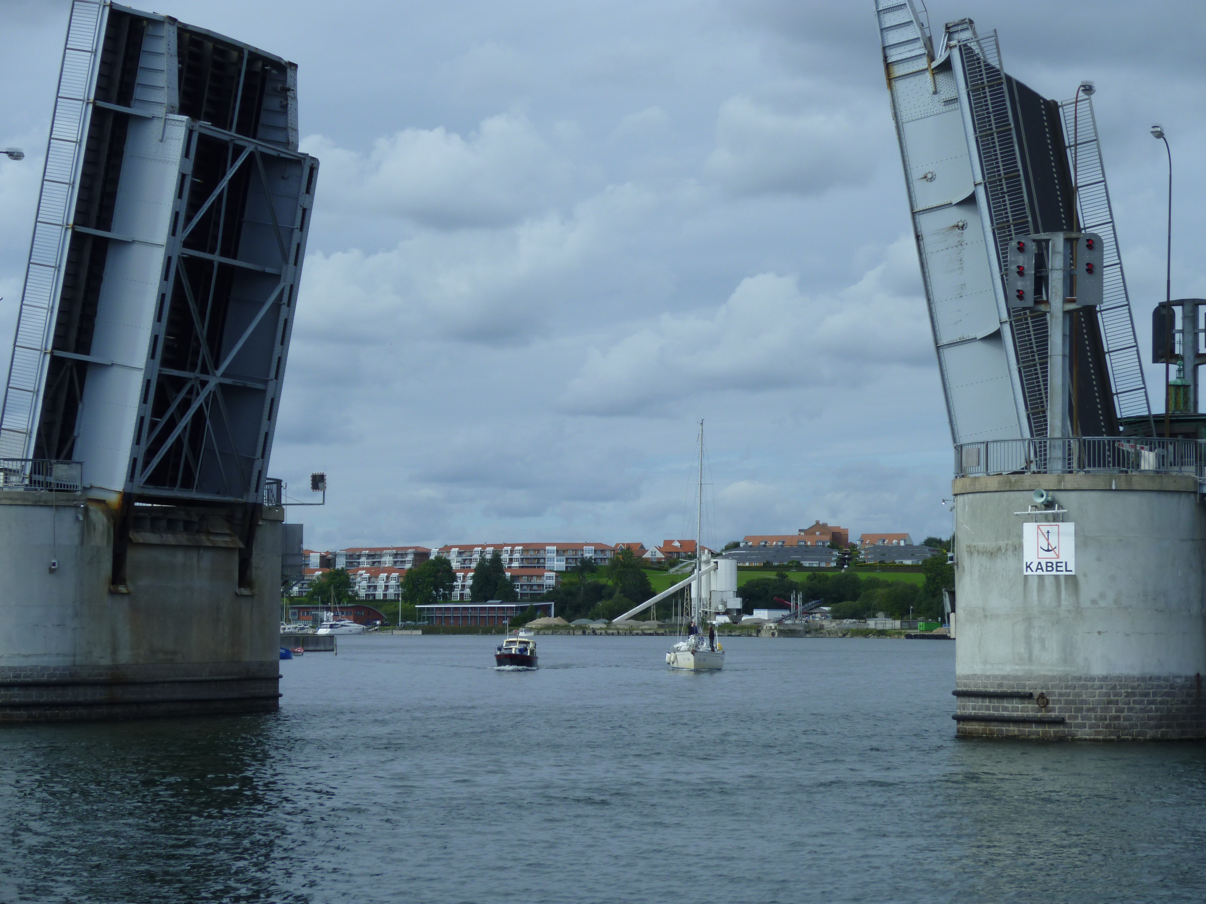 Shipride through the open Kong Christian den X's Bro in Sønderborg